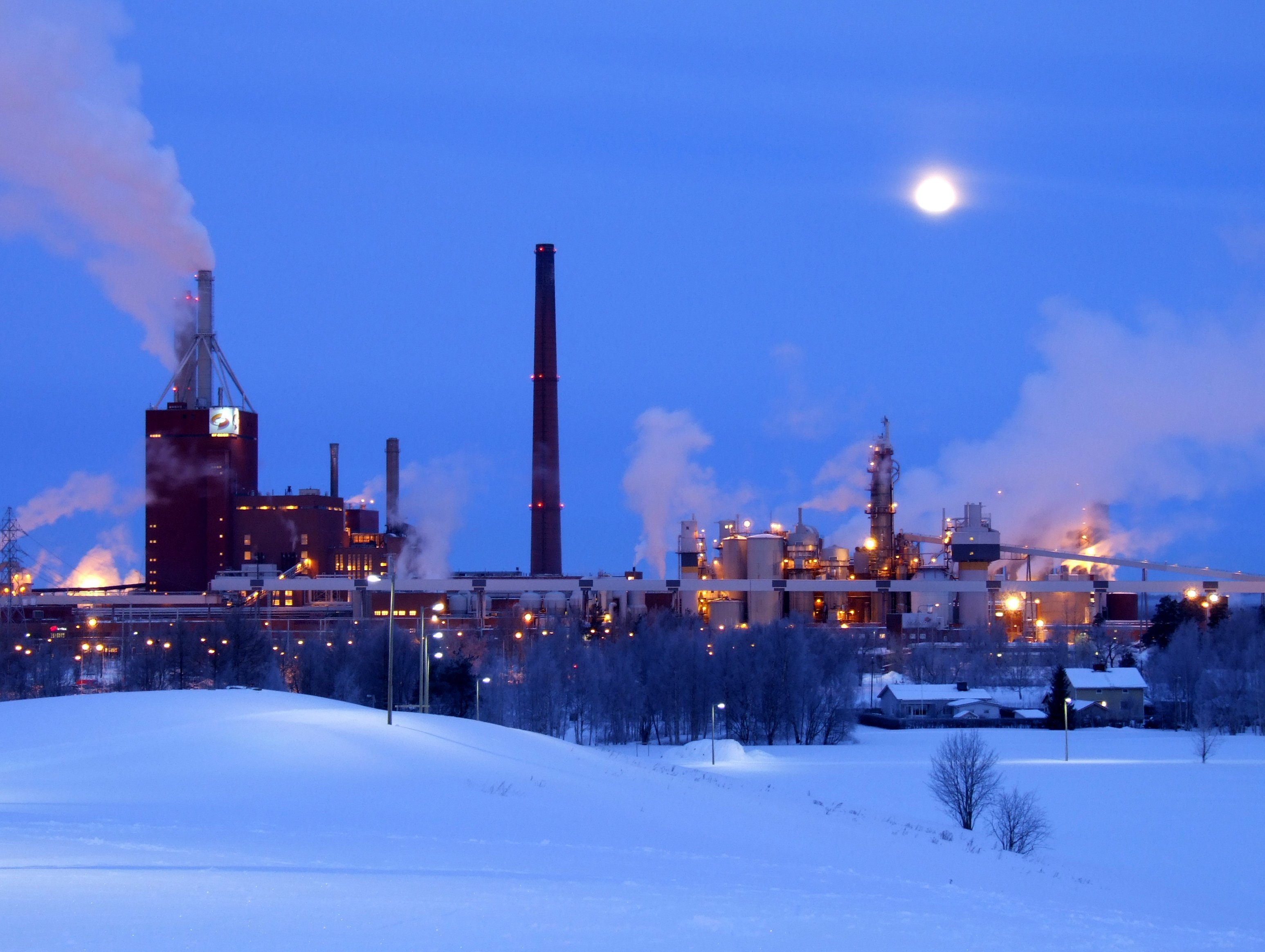 Stora Enso pulp and paper mill in Oulu.